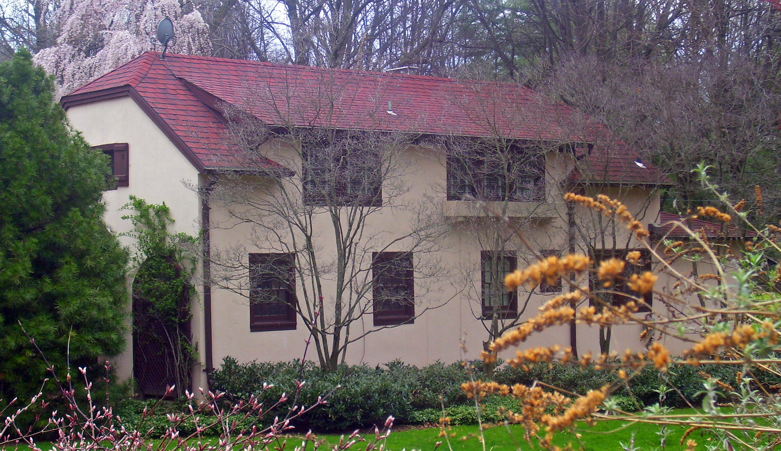 Front cottage of Wild Bank, John Philip Sousa's estate in Sands Point, NY, USA. The main house is shielded by trees and cannot easily be seen from the front gate.